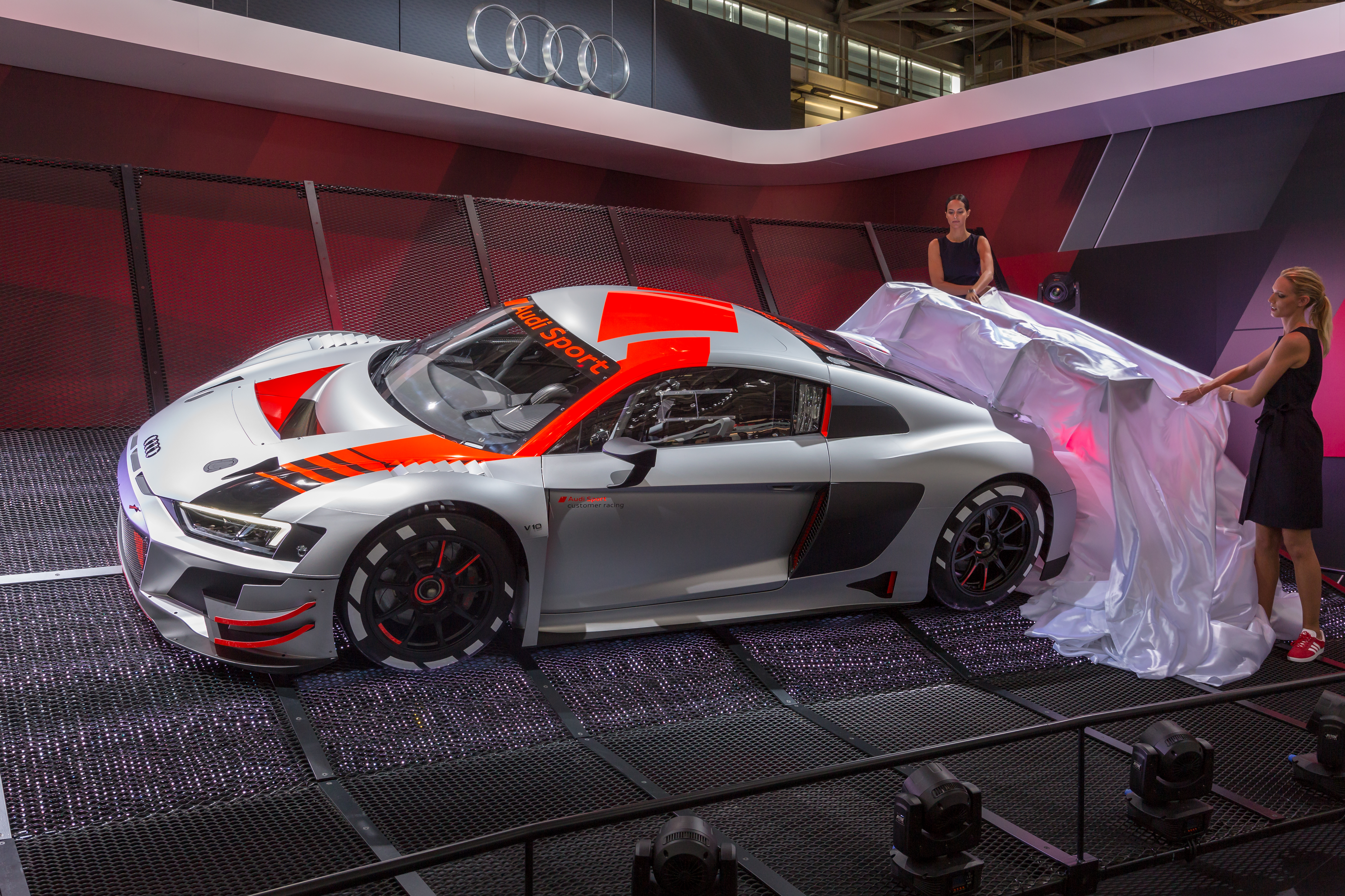 Unveiling of the Audi R8 LMS GT3 at Mondial Paris Motor Show 2018